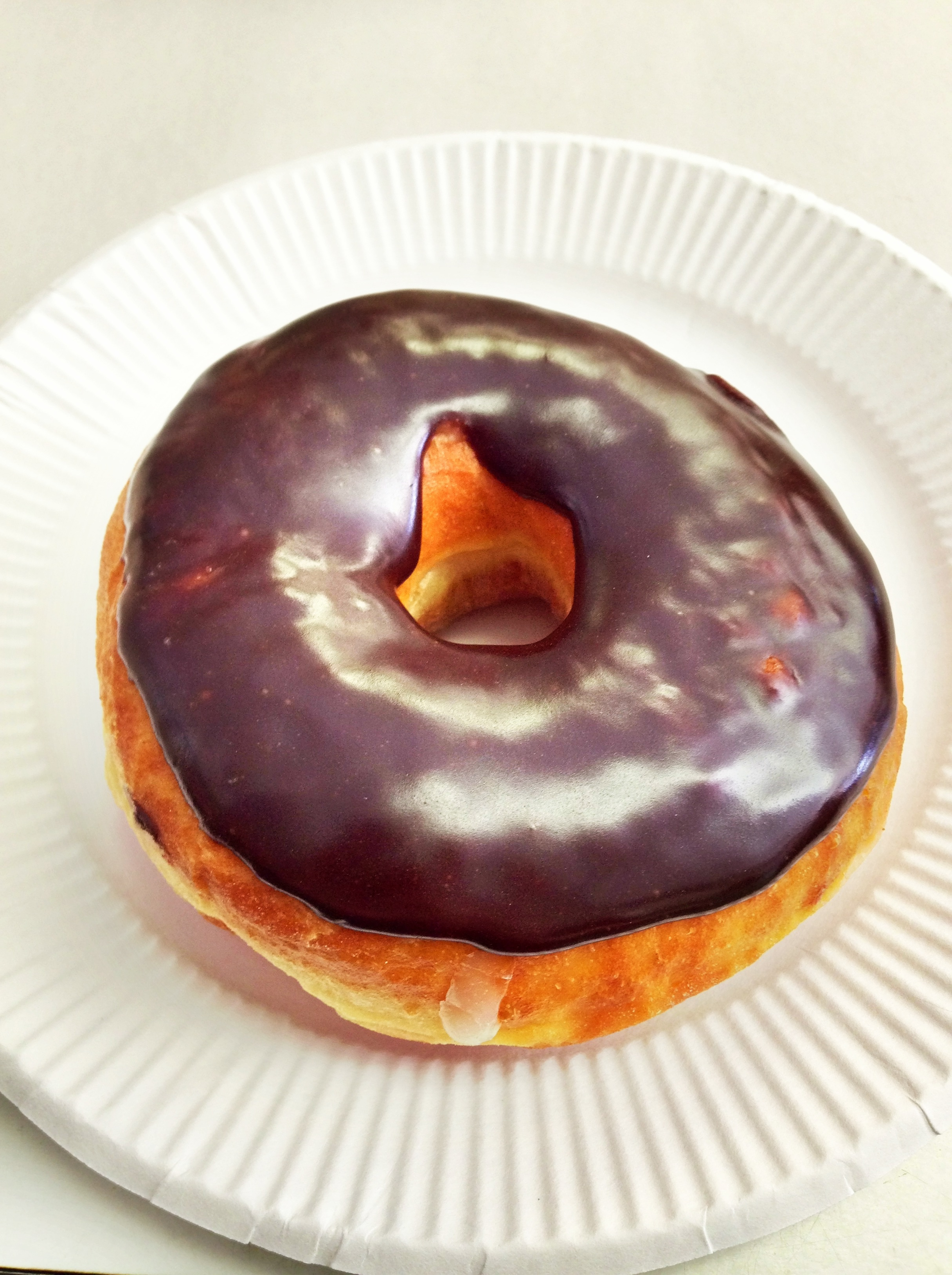 Chocolate Frosted Donuts (Coffee An), Westport, CT 06880 USA - Mar 2013